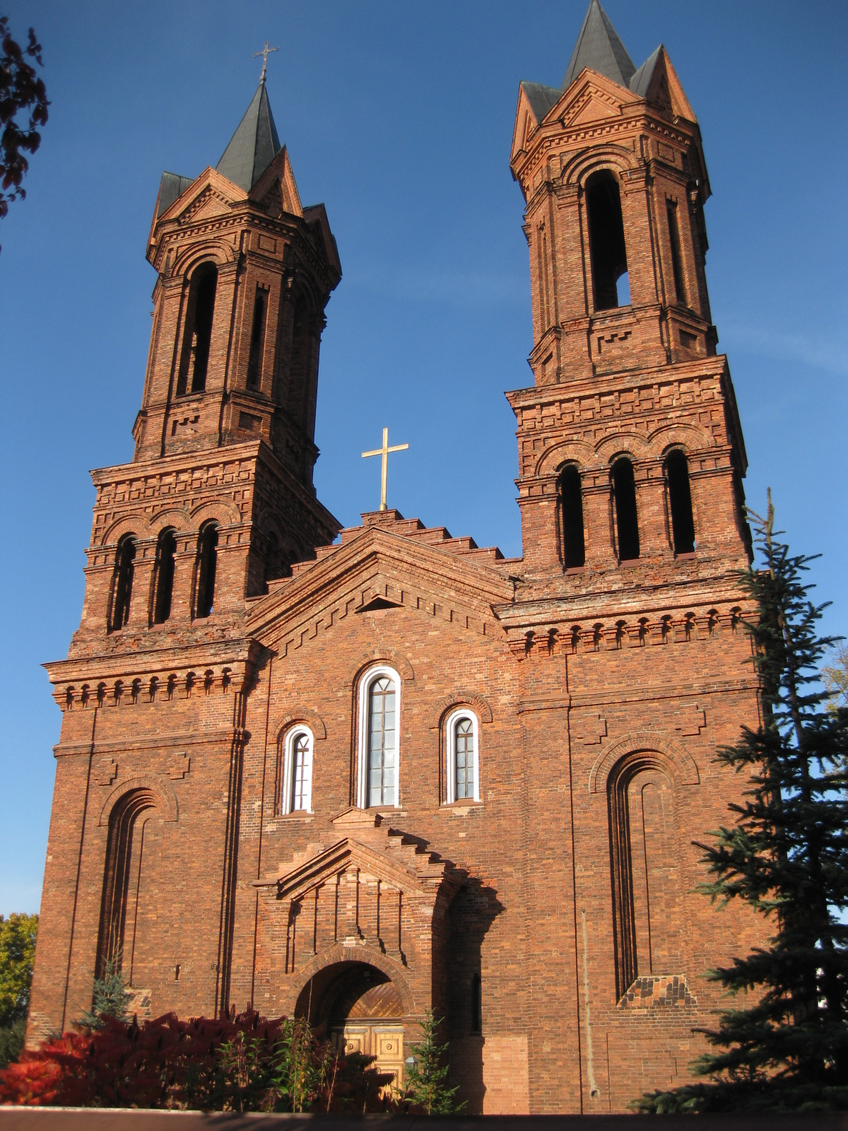 Church of Saint Barbara in Vitebsk city. Беларуская (тарашкевіца): Віцебск, касьцёл Сьвятой Барбары